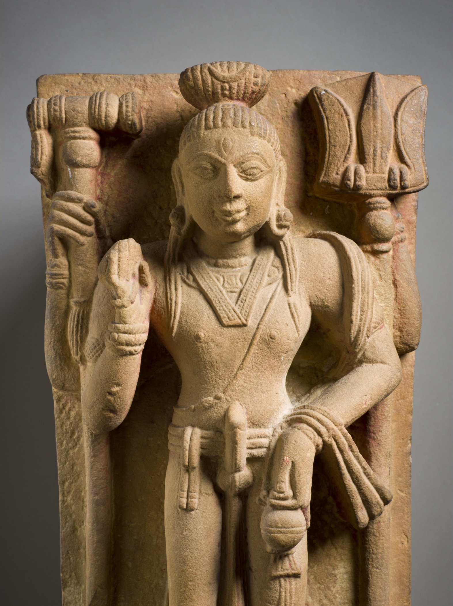 India, Uttar Pradesh, Mathura or Ahichchhatra (?), 3rd century Sculpture Buff sandstone From the Nasli and Alice Heeramaneck Collection, Museum Associates Purchase (M.69.15.1) South and Southeast Asian Art